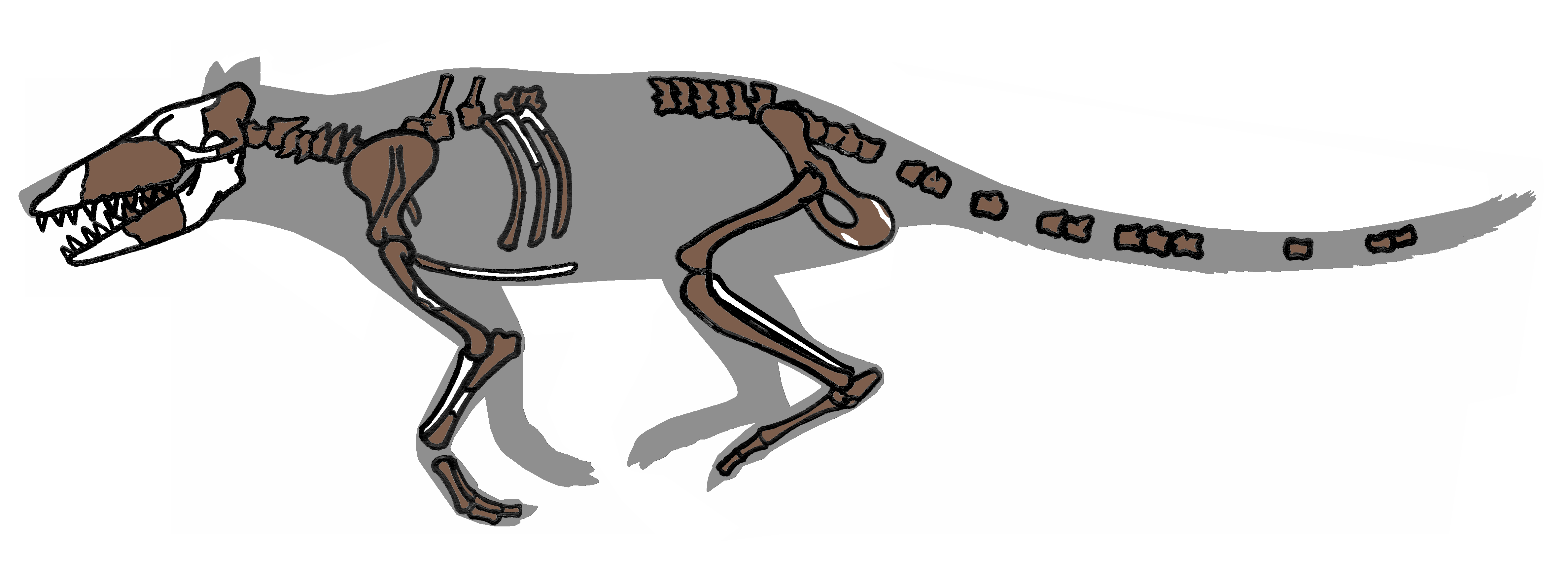 Diagram showning known fossil pieces after the Eocene artiodactylan mammal Pakicetus.[1][2] Sources ↑ Gingerich P.D. et.al, "Origin of whales in epicontinental remnant seas: new evidence from the early Eocene of Pakistan", Science 220 (22 april 1983), p. 403-406. ↑ Thewissen J.G.M. et.al, "Skeletons of terrestrial cetaeans and the relationship of whales to artiodactyls", Nature 423, nr 38/2001 (20 september 2001), p. 277-281. Skull fragments of Pakicetus and restoration after Gingerich et.al (1983), and skeletal remains with reconstruction after Thewissen et.al (2001). [1] and [2]: Fully reconstructed skeleton of Pakicetus]. Diagrams of Pakicetus bones (after Thewissen et.al, 2001). Pakicetus restoration on Science cover in 1983.